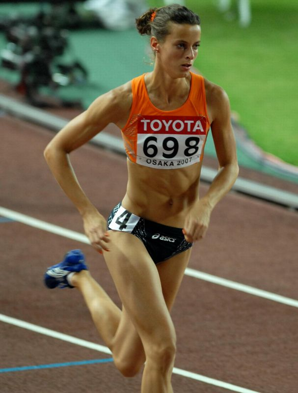 Yvonne Wisse during World Championship 2007 in Osaka